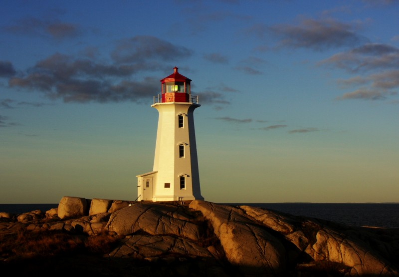 Lighthouse in Nova Scotia at Peggy's Cove